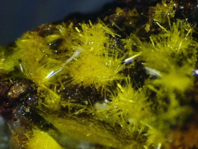 Yingjiangite - Yellow needles with intensive luster of Yingjiangite (EDS- and SXRD-analysed). Field of view app. 1 mm.